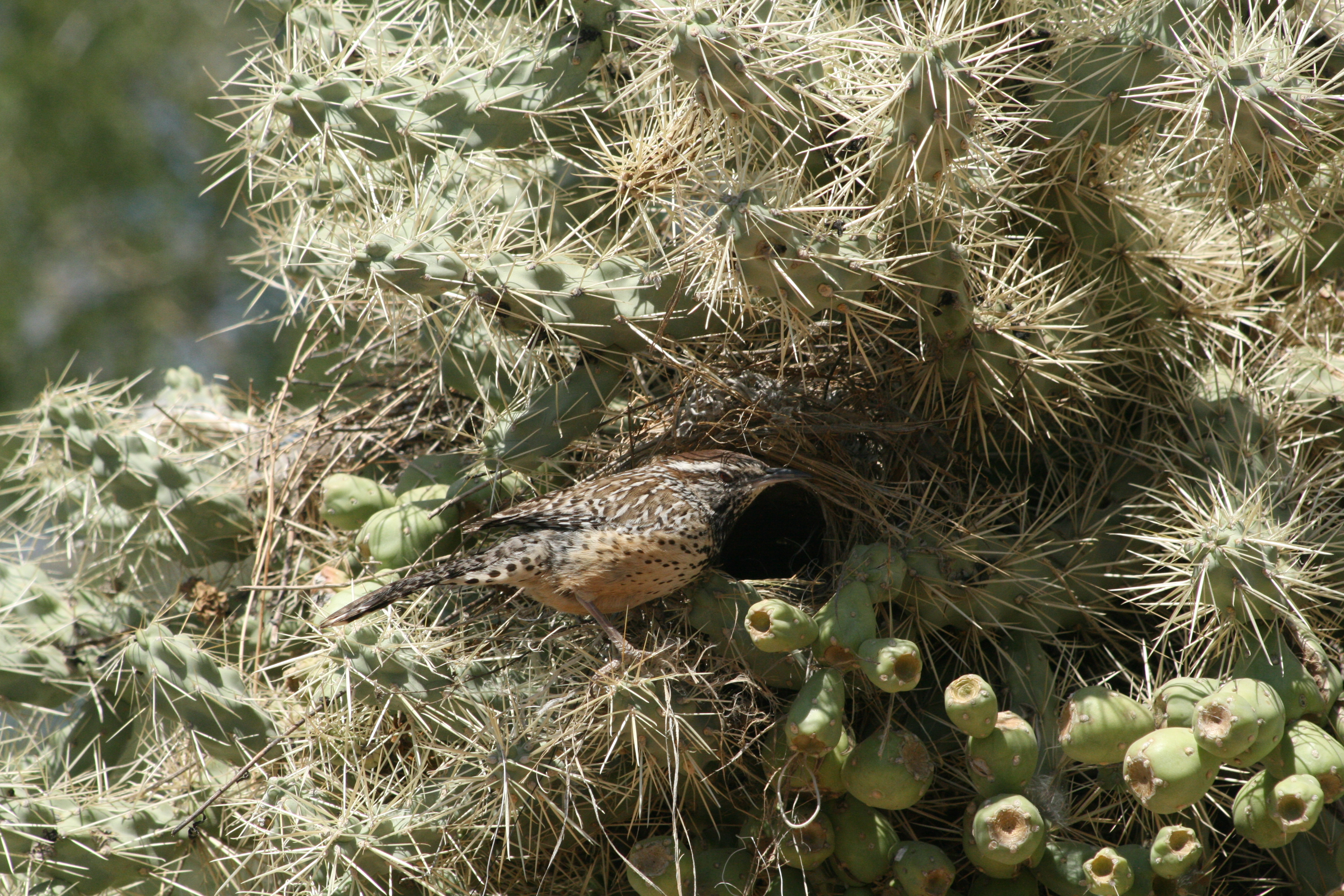 Cactus Wren at nest in Desert Botanical Garden, Phoenix AZ